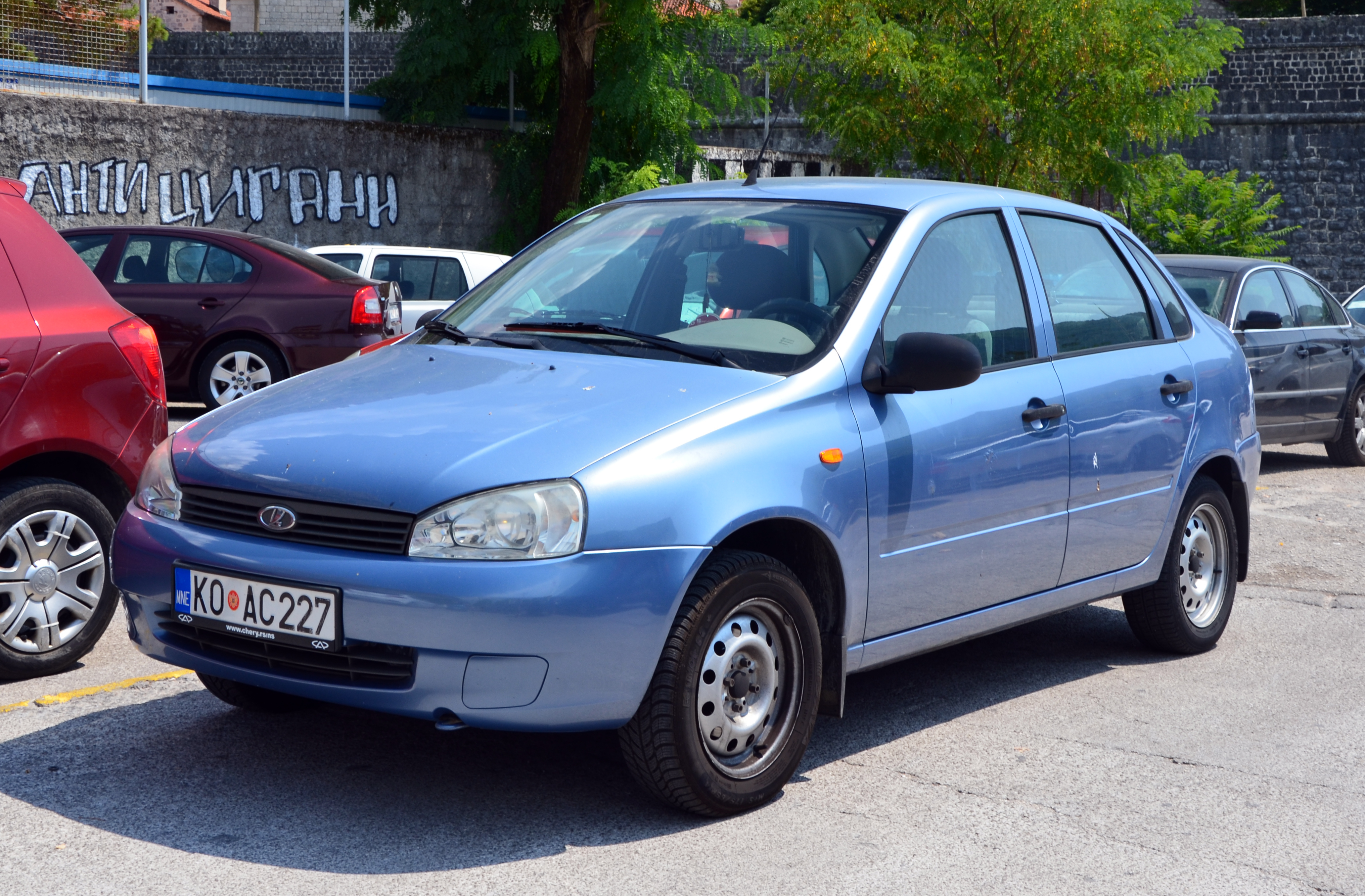 Lada Kalina 1118 in Kotor (Montenegro)